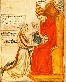 From